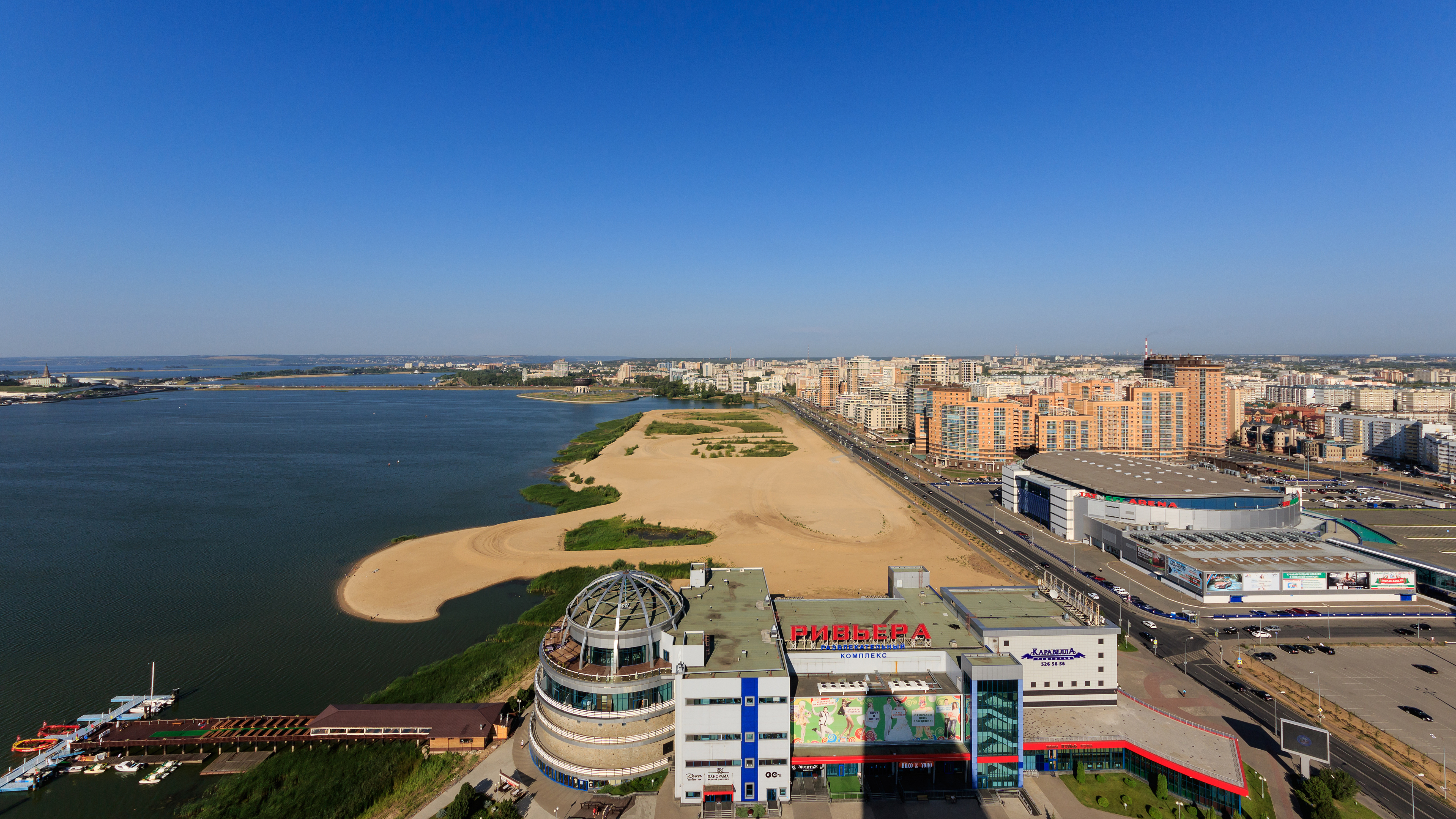 View from the viewpoint of Riviera Hotel in Kazan, Russia